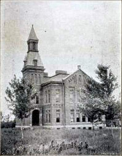 Public school building. Keytesville, Missouri. Photo taken in 1896. First published in that year as well.